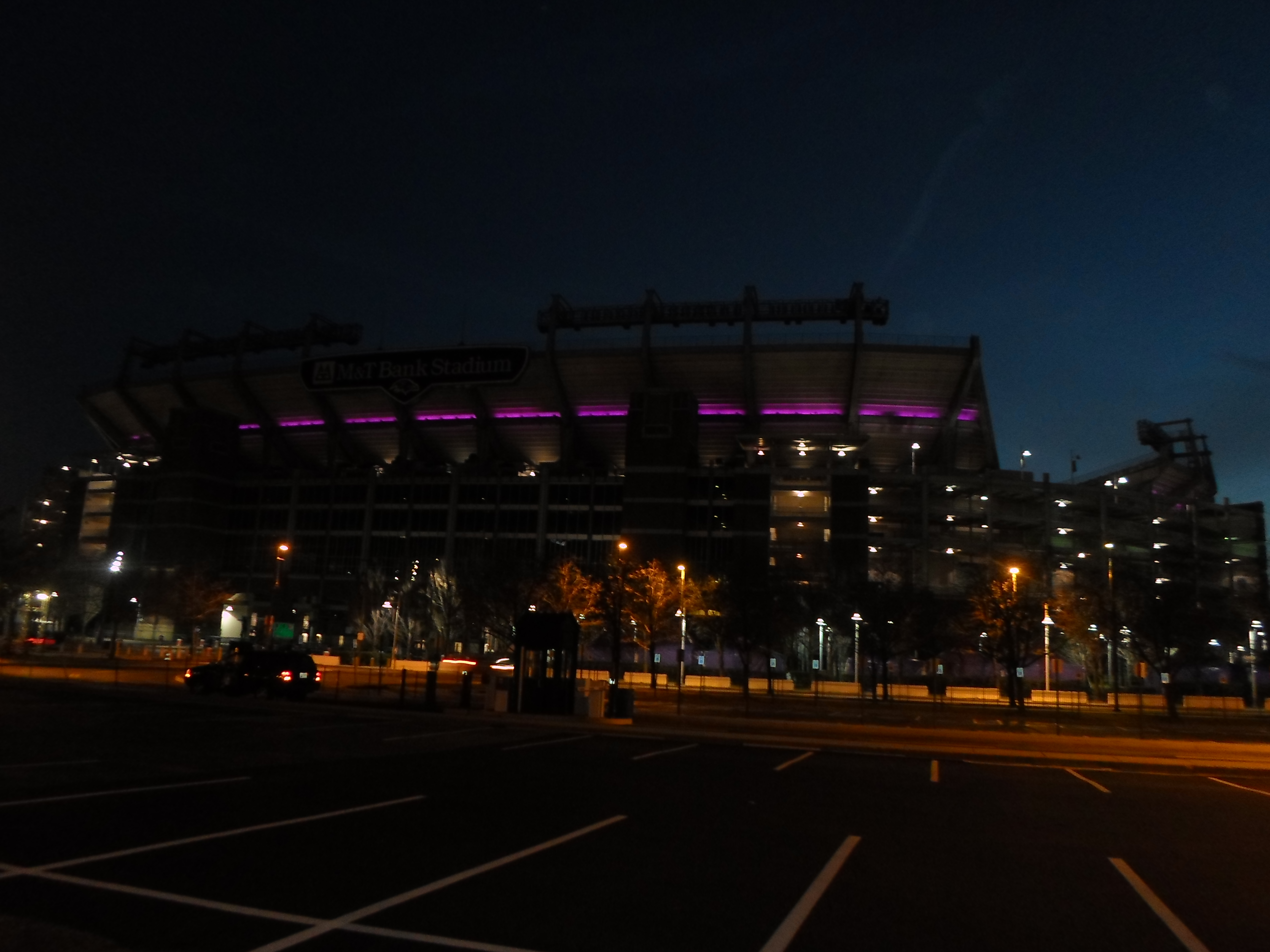 View of M&T Bank Stadium at night with purple LED lighting. The stadium lighted during every Ravens playoff run, like here in the 2013 postseason which the Ravens reached their 2nd Super Bowl appearance.